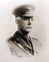 Alfred St. George Hamersley, the solicitor, entrepreneur and rugby union international, in military uniform from a picture taken before 1905.